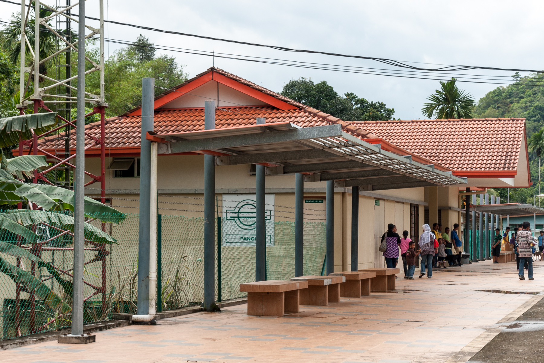 Sabah State Railway: Stesen Rayoh in the Padas River Valley